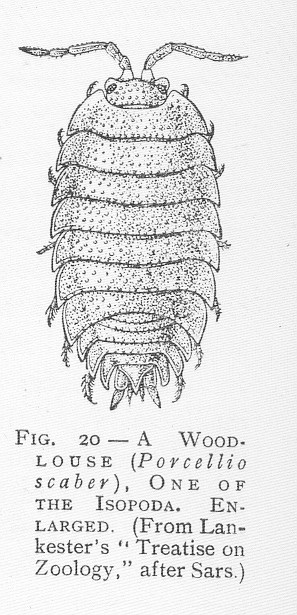 Wood-Louse (Porcellio scaber), one of the Isopoda Subject: Isopoda Tag: Invertebrates